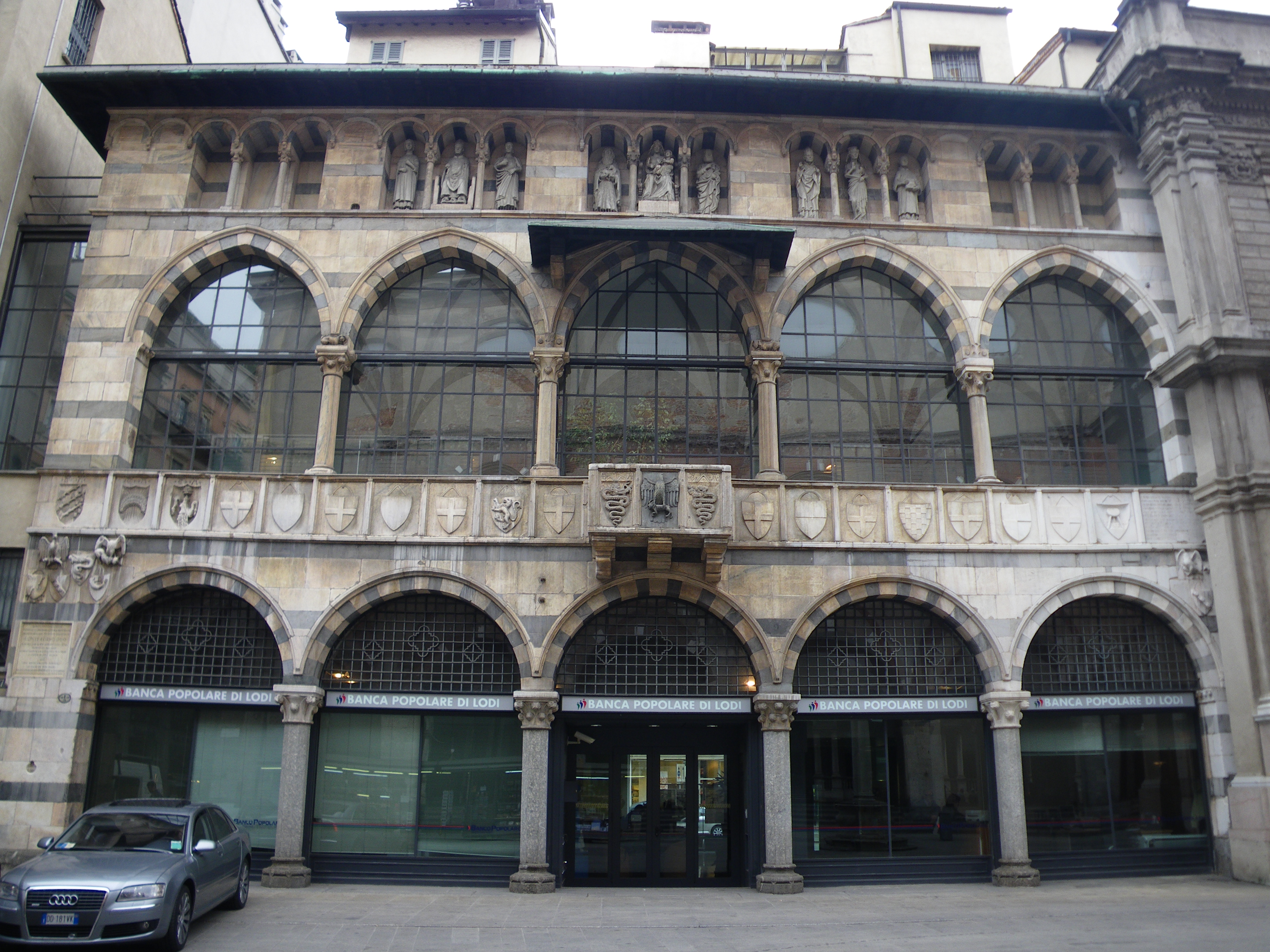 Milan, Italy